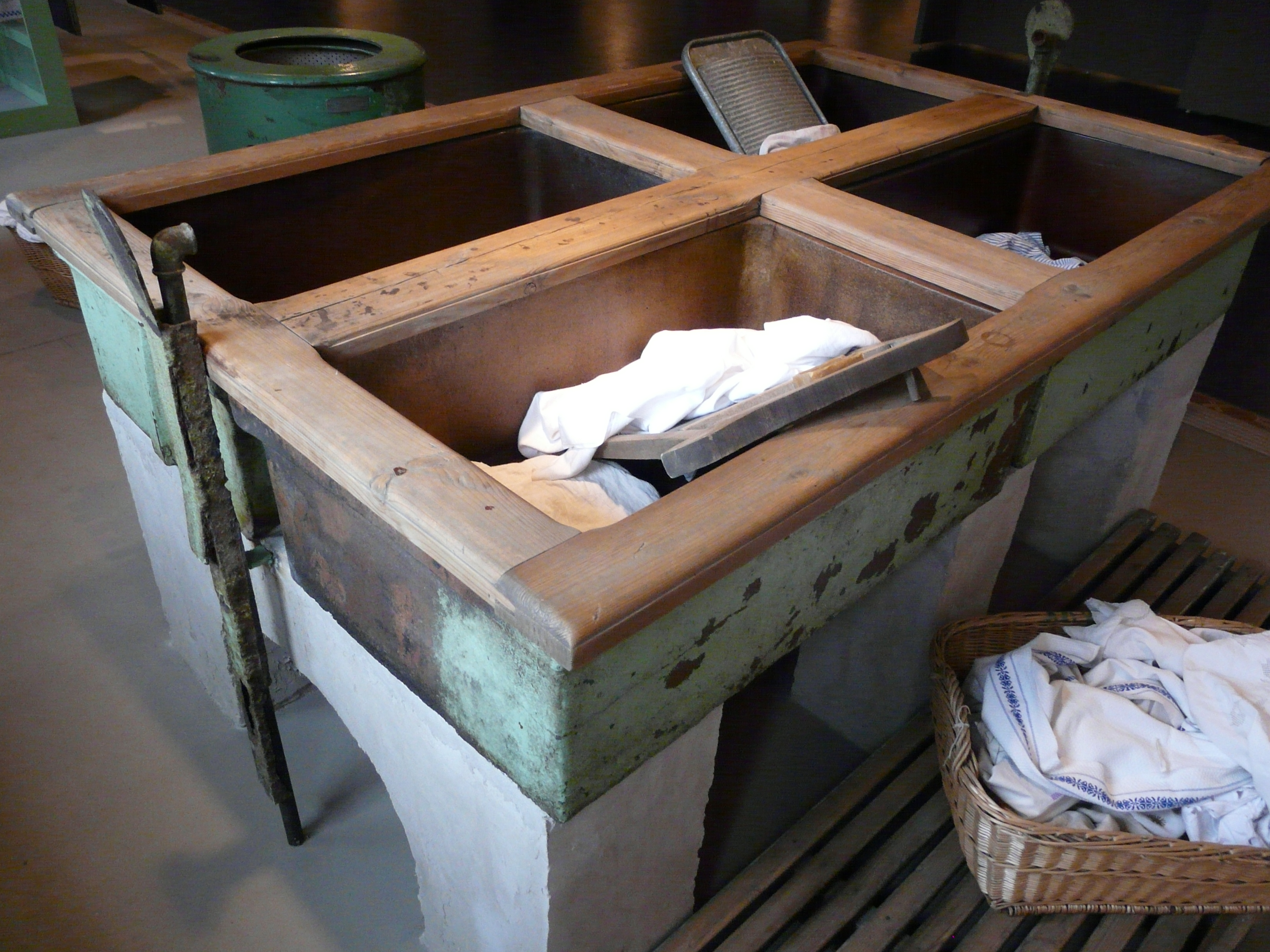 Katowice, Nikiszowiec. Muzeum Historii Katowic. From the collections: "U nos w doma na Nikiszu" (depictions of average households, pics 18-49) and "Woda i mydło najlepsze bielidło" (depictions of communal laundry, pics 5-17).